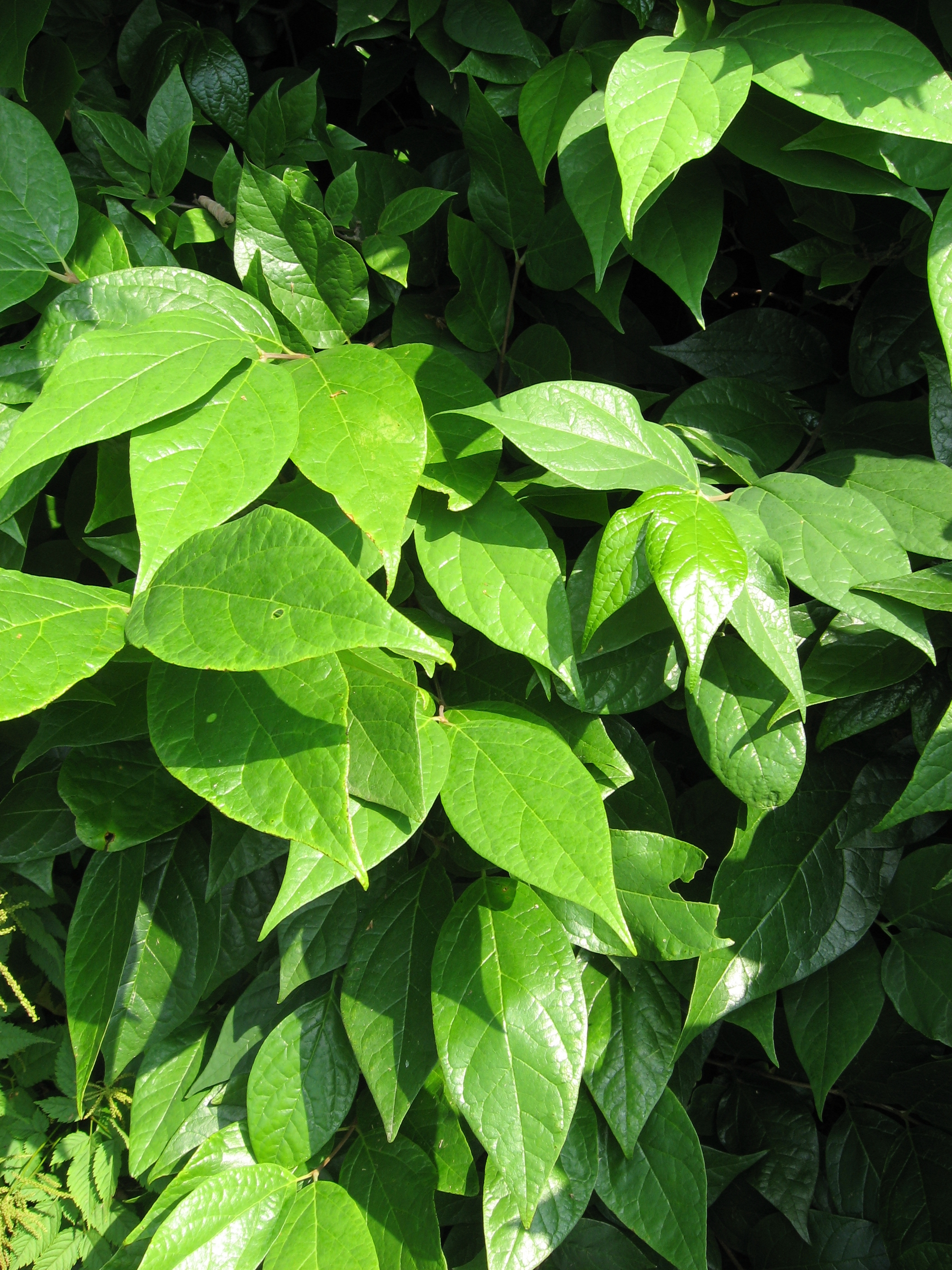 The leaves of Calycanthus floridus — Carolina spicebush.